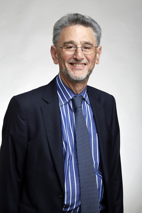 (Alexander) Philip Dawid is Emeritus Professor of Statistics of the University of Cambridge, and Emeritus Fellow of Darwin College, Cambridge. He is a leading proponent of Bayesian statistics Attribution: The Royal Society